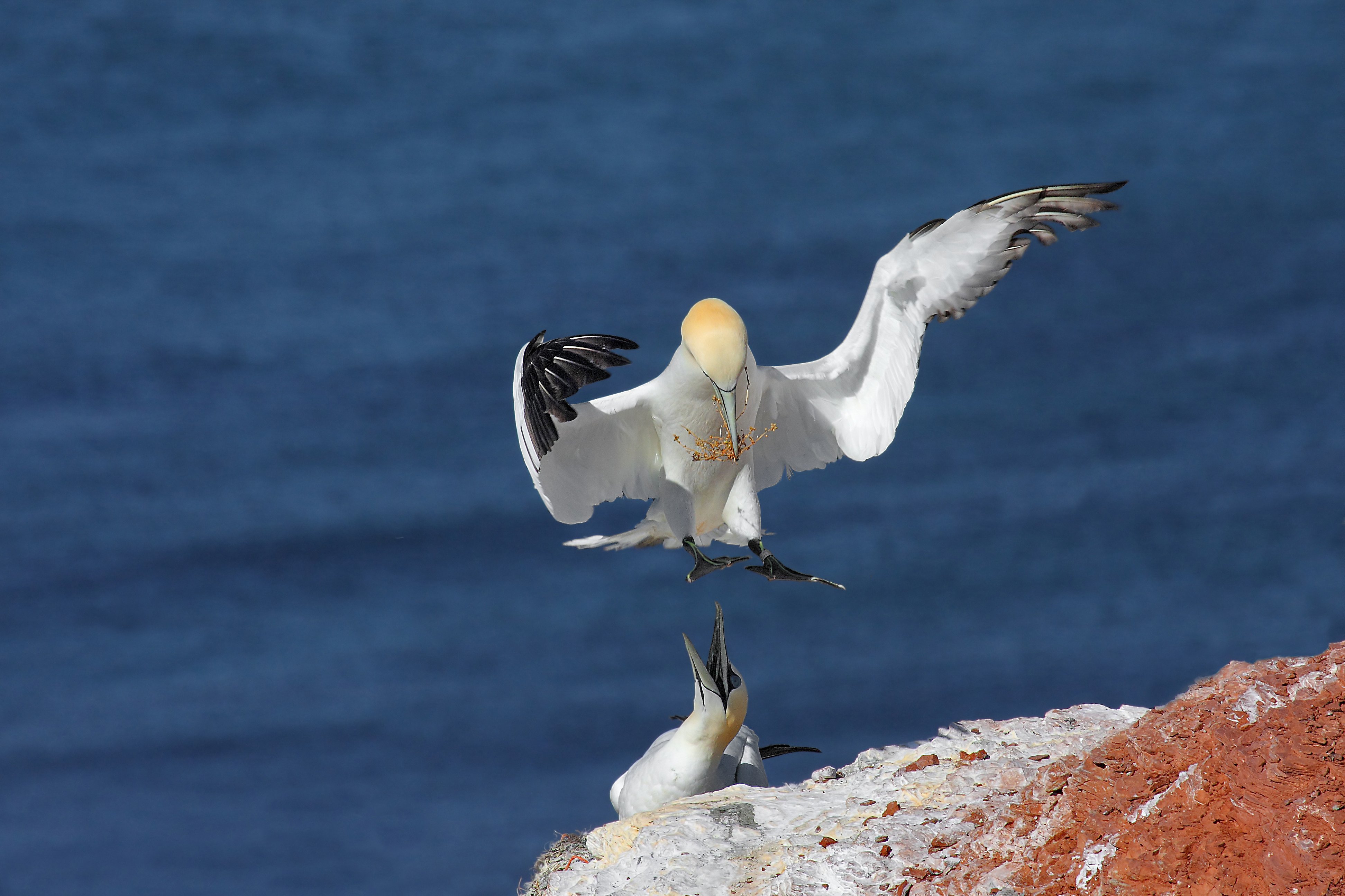 Northern Gannet